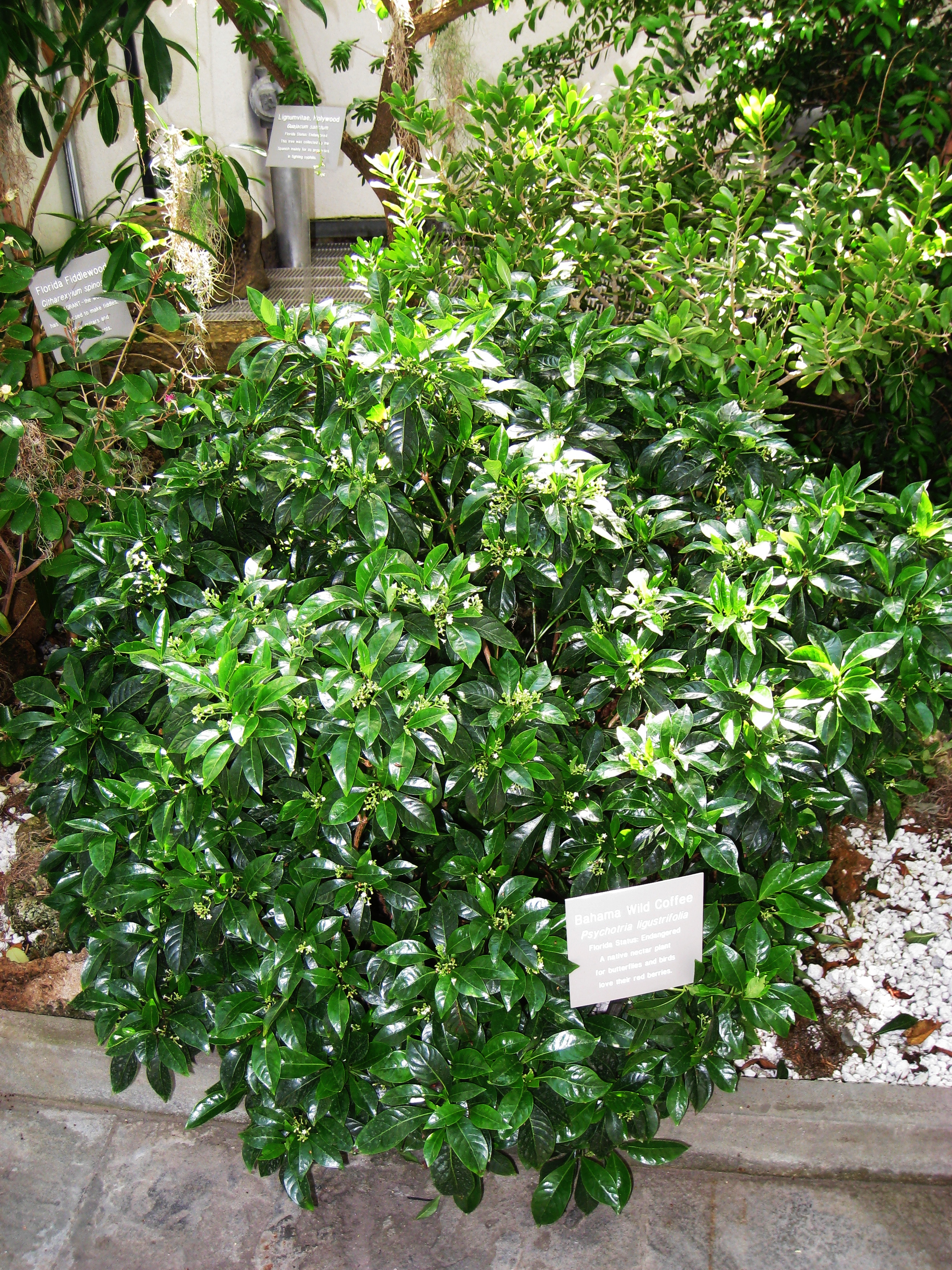 Psychotria ligustrifolia, in the United States Botanic Garden, Washington, DC, USA.